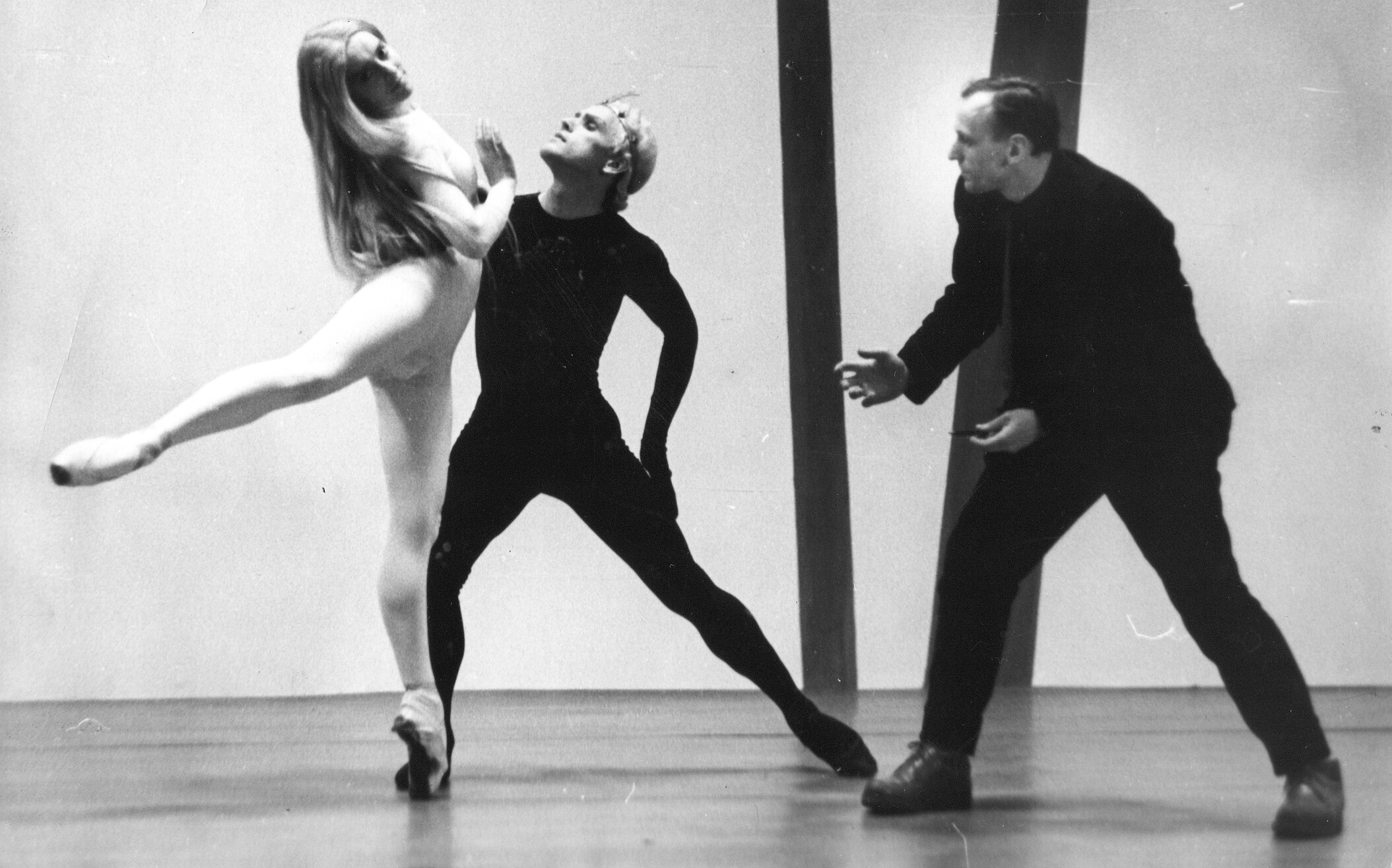 Vytautas Grivickas